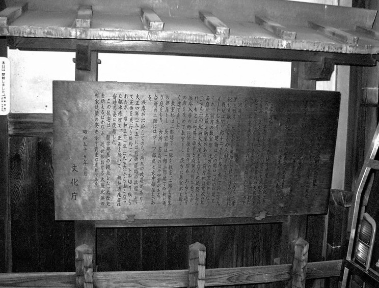 Tekijuku.